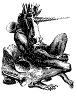 Image of Amdusias from Collin de Plancy's Dictionnaire Infernal (1863)